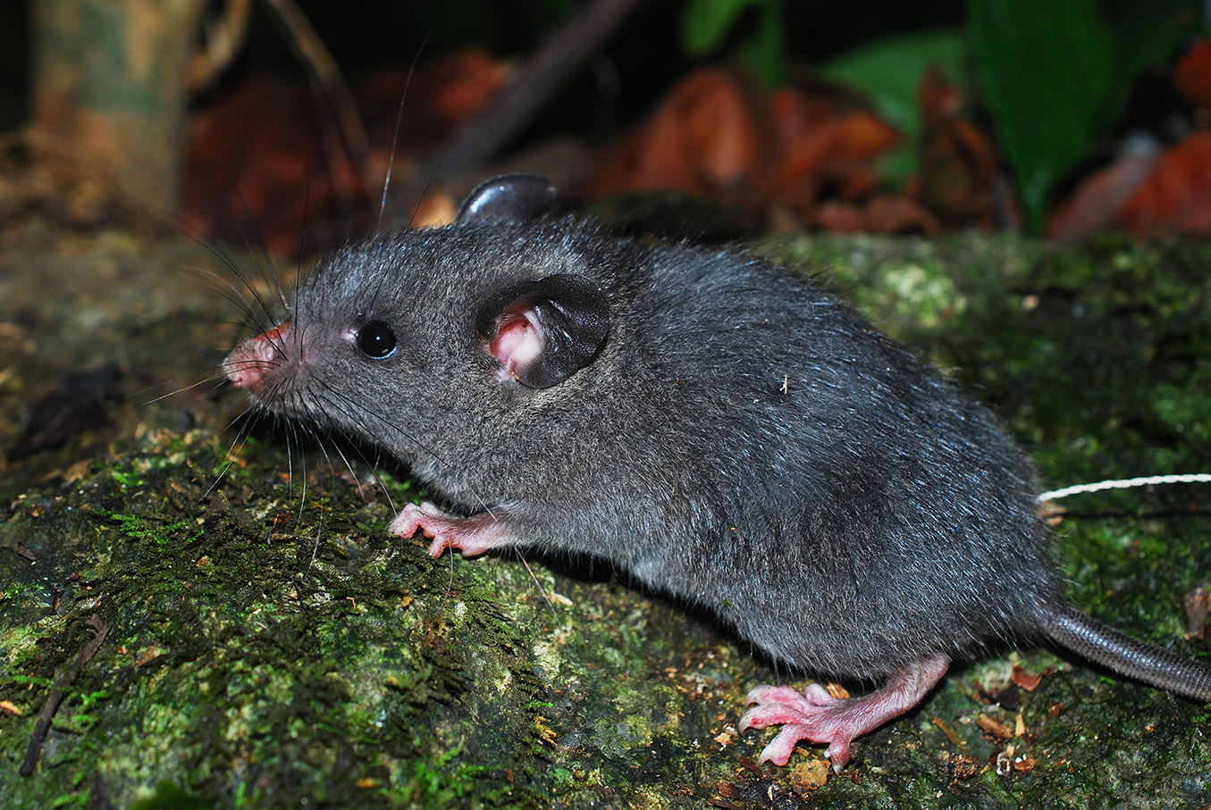 Living specimen of Saxatilomys paulinae from Quang Binh province, Vietnam (the nose is wounded by trapping).